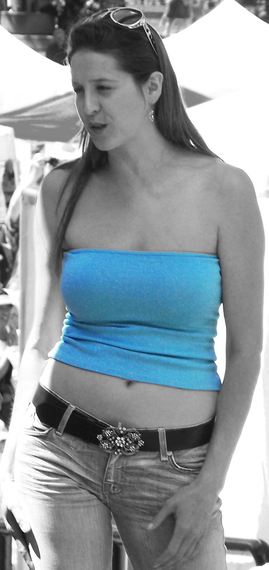 A woman wearing a colour-isolated blue tube top.